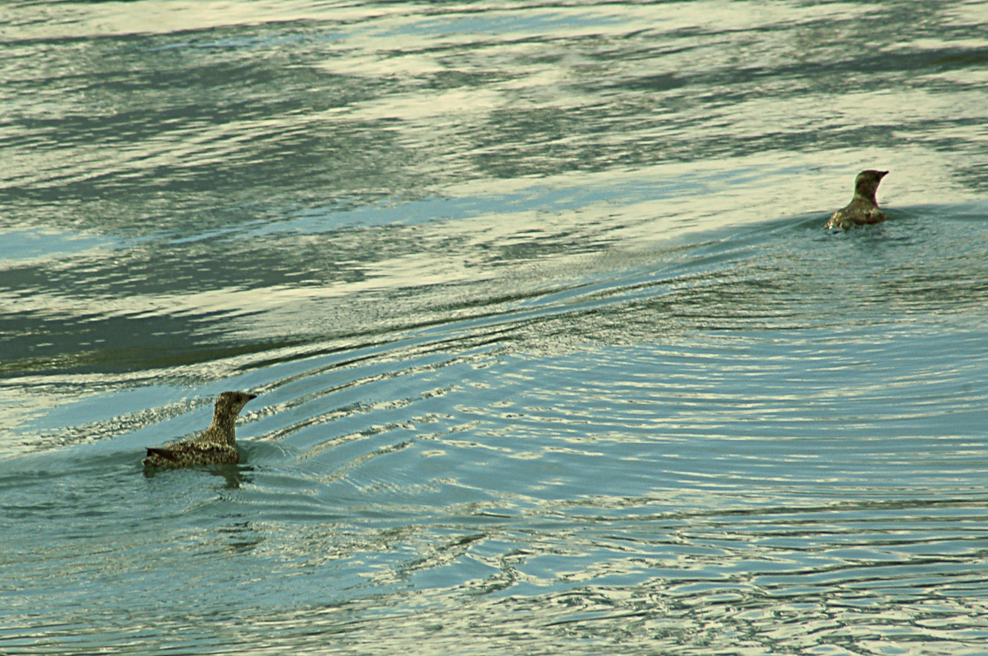 Kittlitz's Murrelet Brachyramphus brevirostris, Aialik Bay, Kenai Peninsula Borough, Alaska